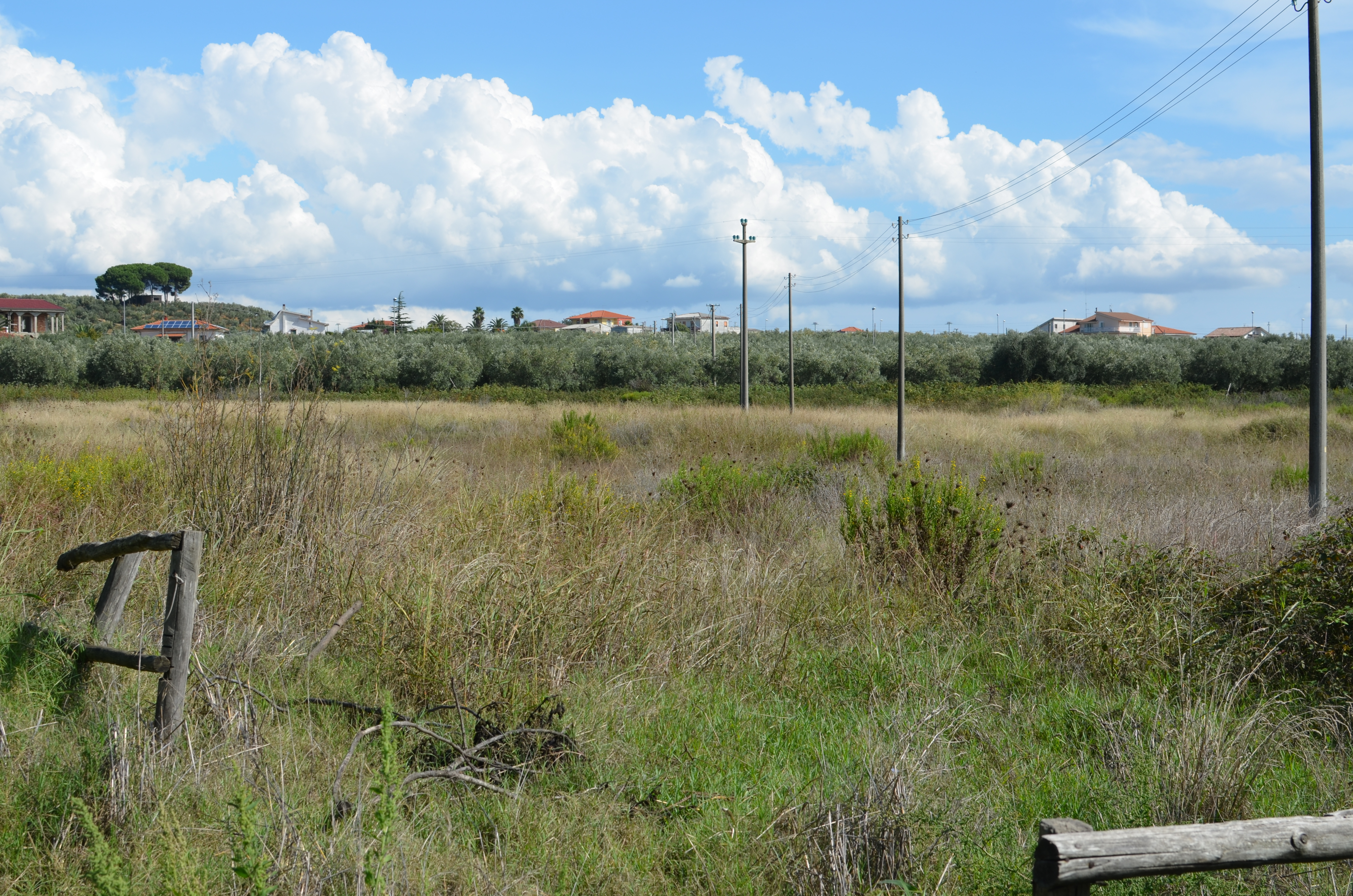 The site of Terina, which was excavated in 1997. The site is now overgrown with vegetation and the traces of the excavations are only evident on satellite photos.